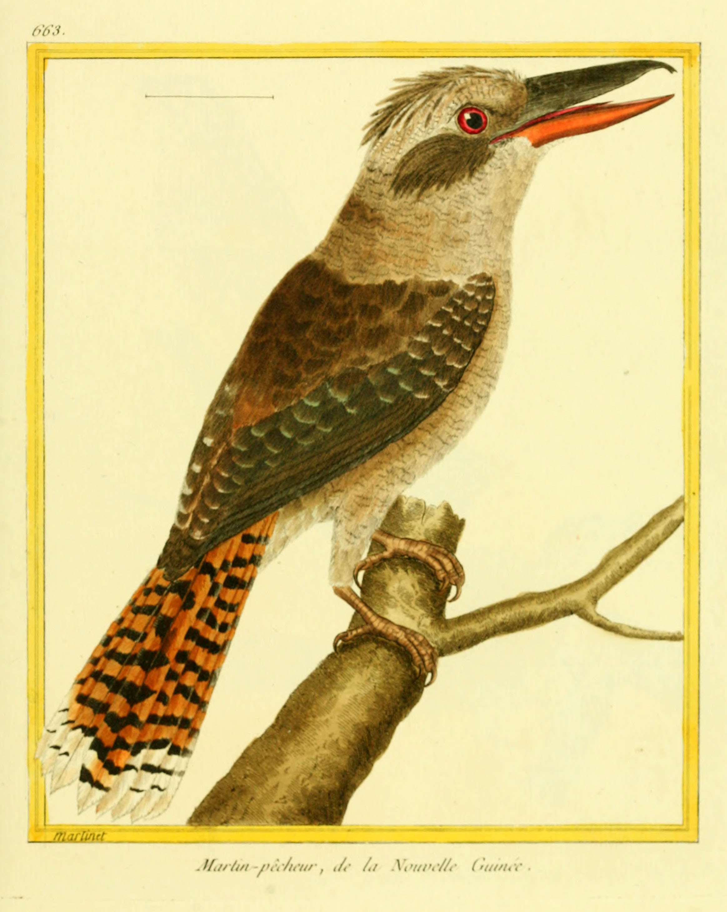 Plate showing the laughing kookaburra (Dacelo novaeguineae) In 1783 Johann Hermann and Pieter Boddaert both published formal descriptions of this species based on this plate.